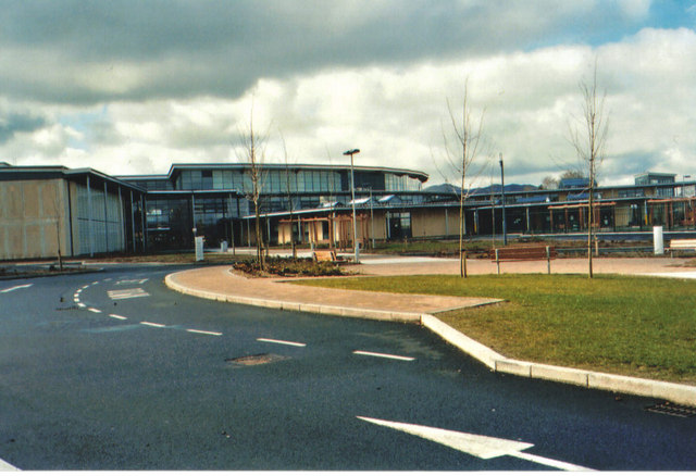 Hadley Learning Community This £70m PFI project was opened on September 1st 2006 on a 39 acre site. It includes primary, secondary, early years, a childrens centre, The Bridge Specialist School and community facilities.